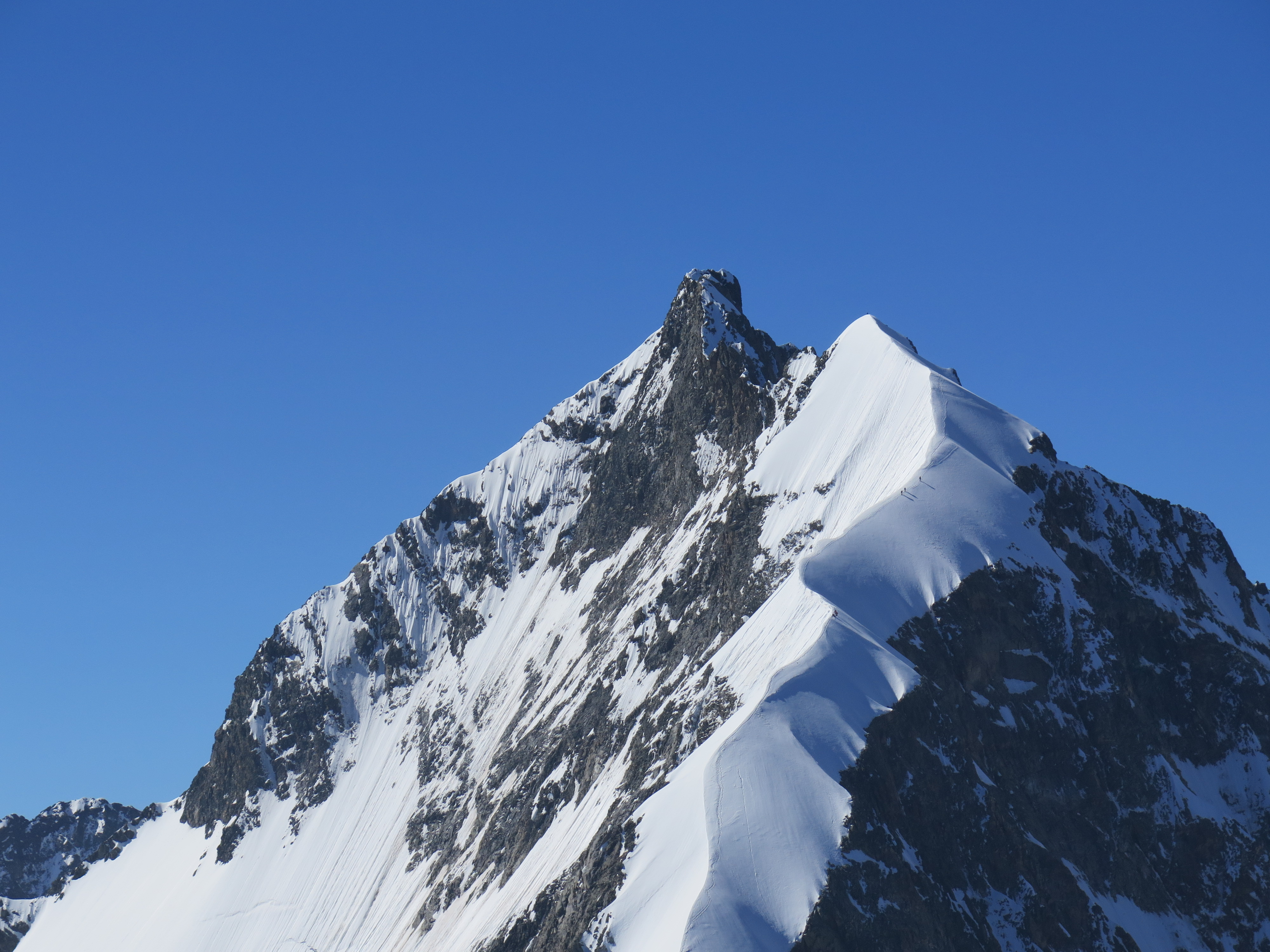 Piz Bernina (4049m)